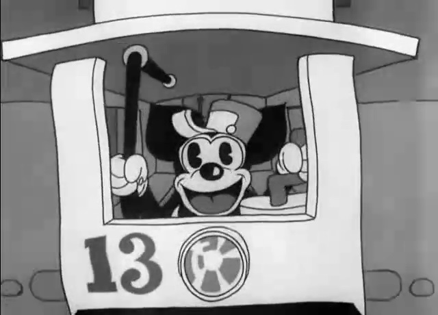 Screenshot from Smile, Darn Ya, Smile!, a 1931 Warner Bros. cartoon. The short subject fell into the public domain after years of copyright neglect (Source: Golden Age Cartoons).